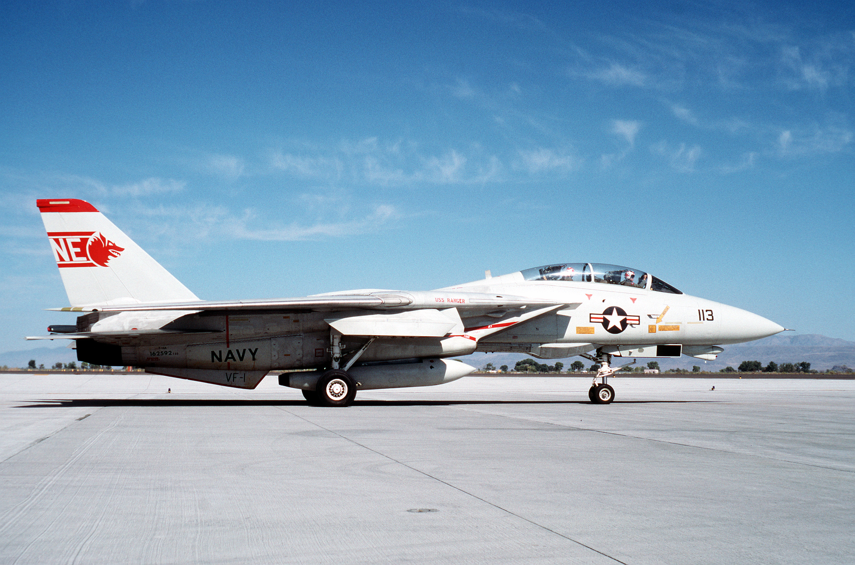 A U.S. Navy Grumman F-14A-135-GR Tomcat (BuNo 162592) from Fighter Squadron 1 (VF-1) "Wolfpack" preparing for takeoff at Naval Air Station Fallon, Nevada (USA), on 23 September 1988. VF-1 was assigned to Carrier Air Wing 2 (CVW-2) aboard the aircraft carrier USS Ranger (CV-61).